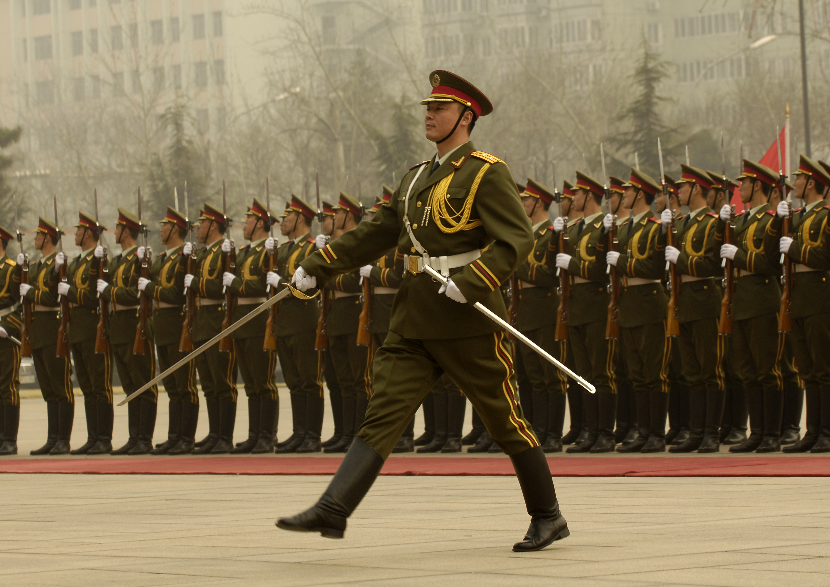 A ceremony at the Ministry of Defense in Beijing welcomes Chairman of the Joint Chiefs of Staff U.S. Marine Gen. Peter Pace, March 22, 2007.